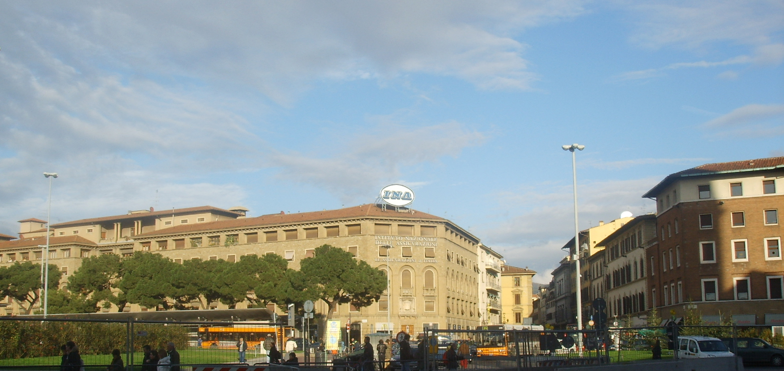 Santa Maria Novella train station square in Florence, Italy.